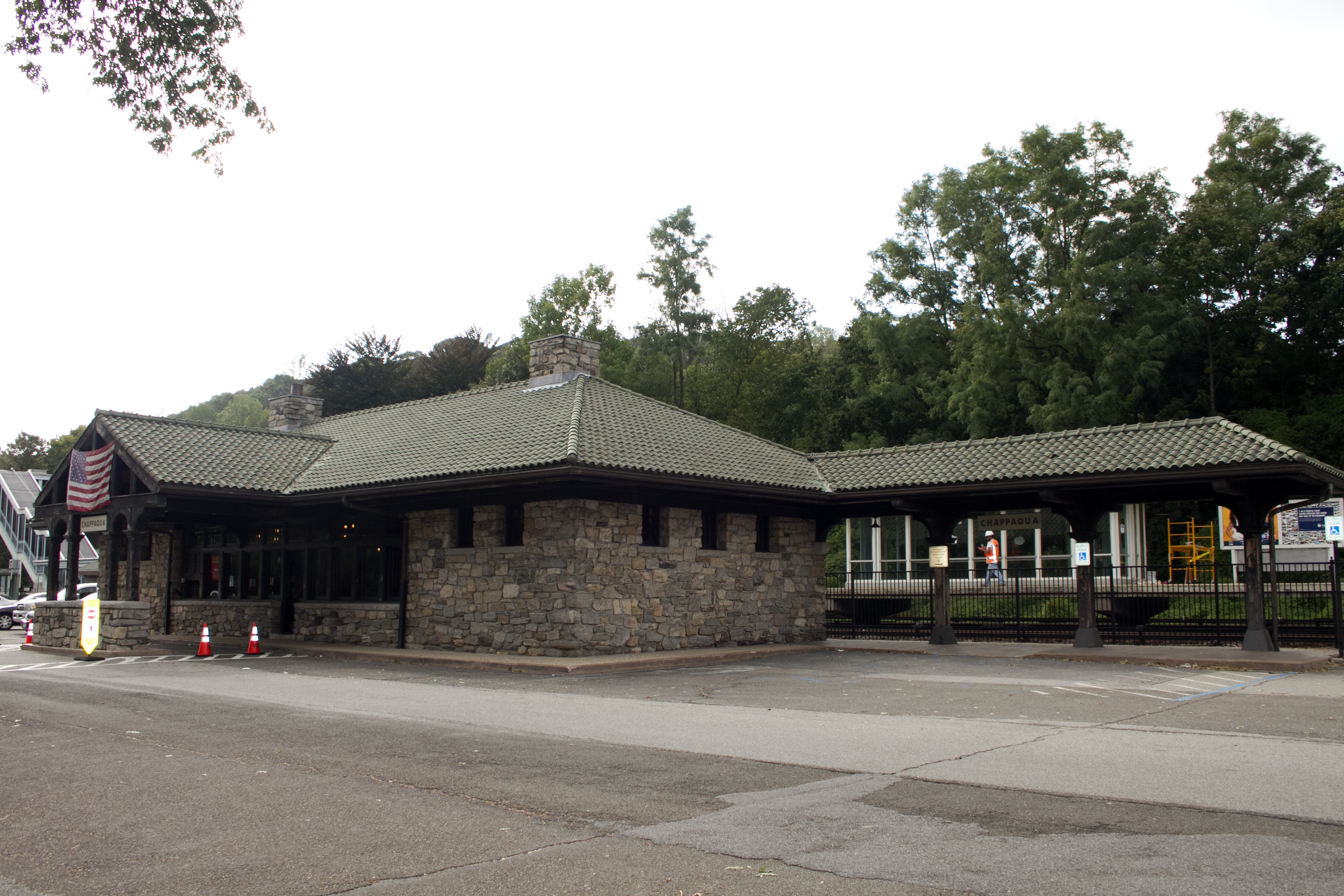 Chappaqua Railroad Depot and Depot Plaza